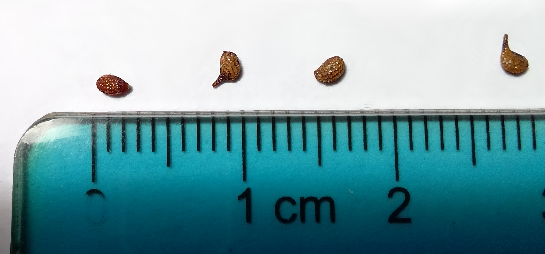 Kiwi seeds on a sheet of paper, with a ruler below. Light exposure is voluntarily high to make details more visible.